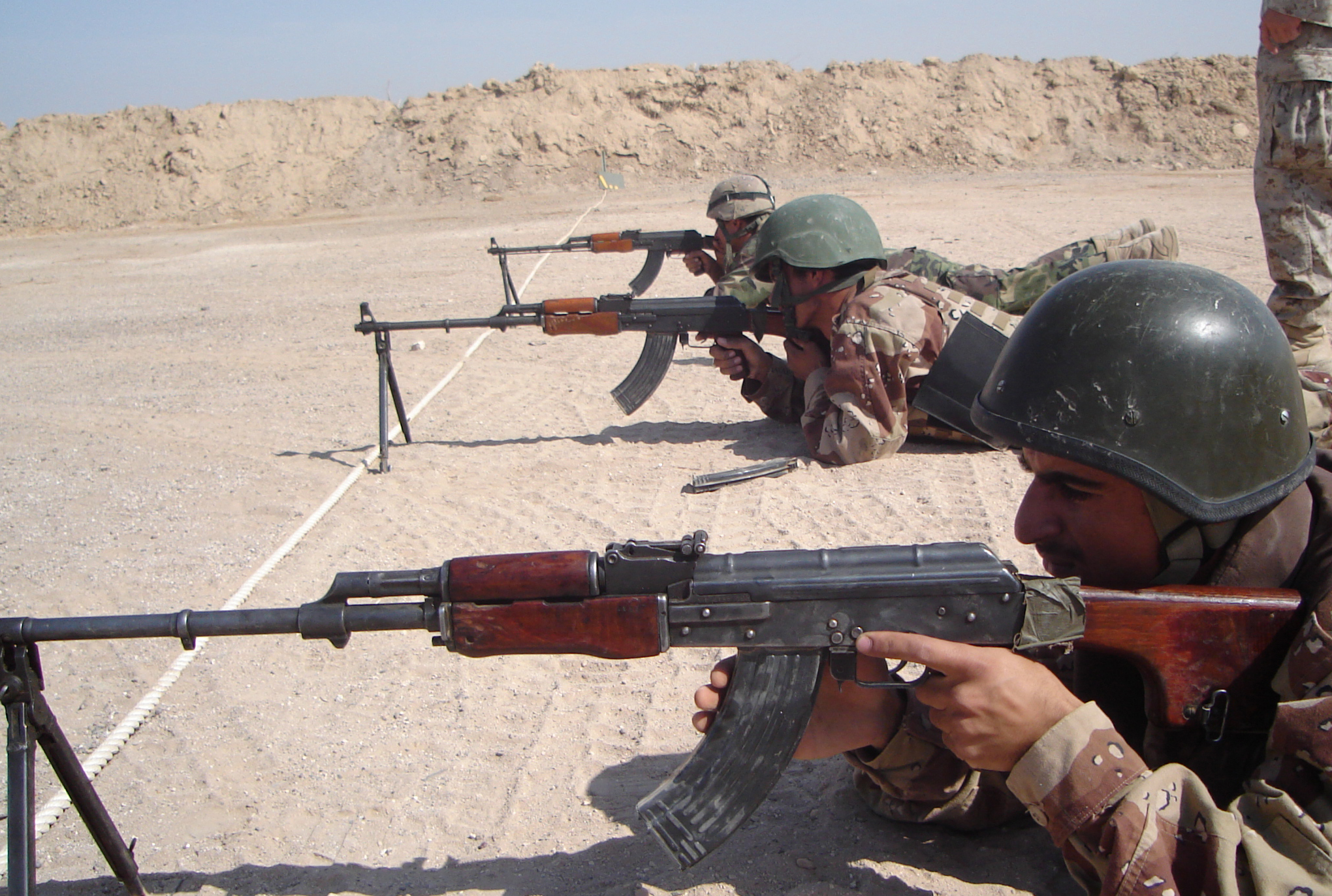 CAMP HABBANIYAH, Iraq - Iraqi Soldiers aim in thier RPK light machine guns during the Iraqi Small Arms Weapons Instructor Course taught by the Marines of the 2nd Marine Division Training Center here.